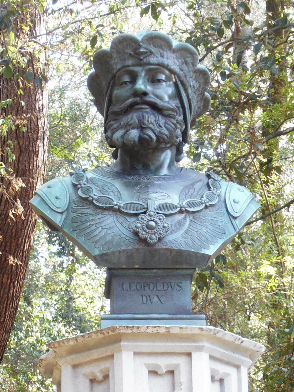 Leopold's bust (1863) in Miramare Castle park in Trieste